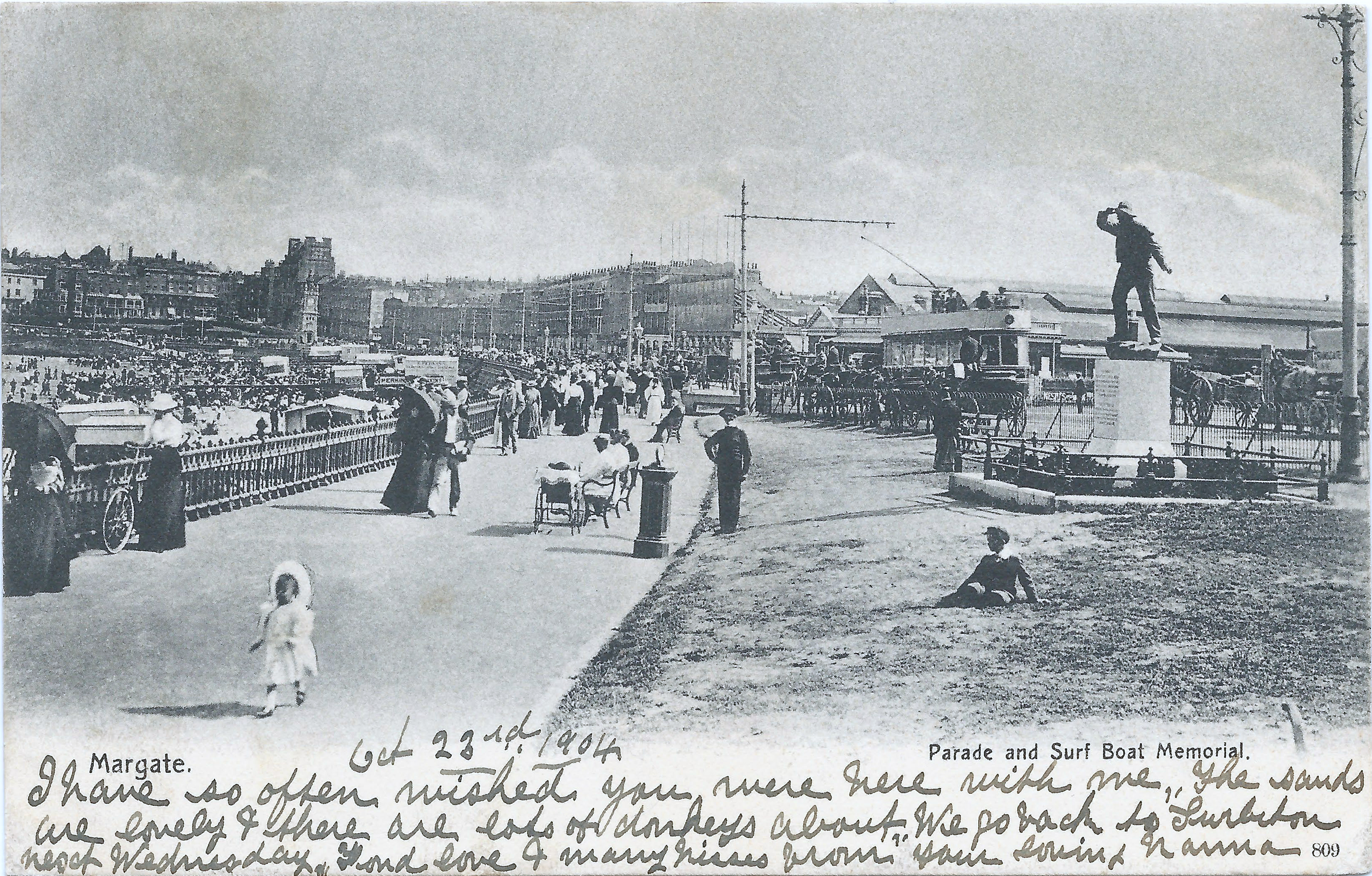 Summer parade in Margate. Tram in the background